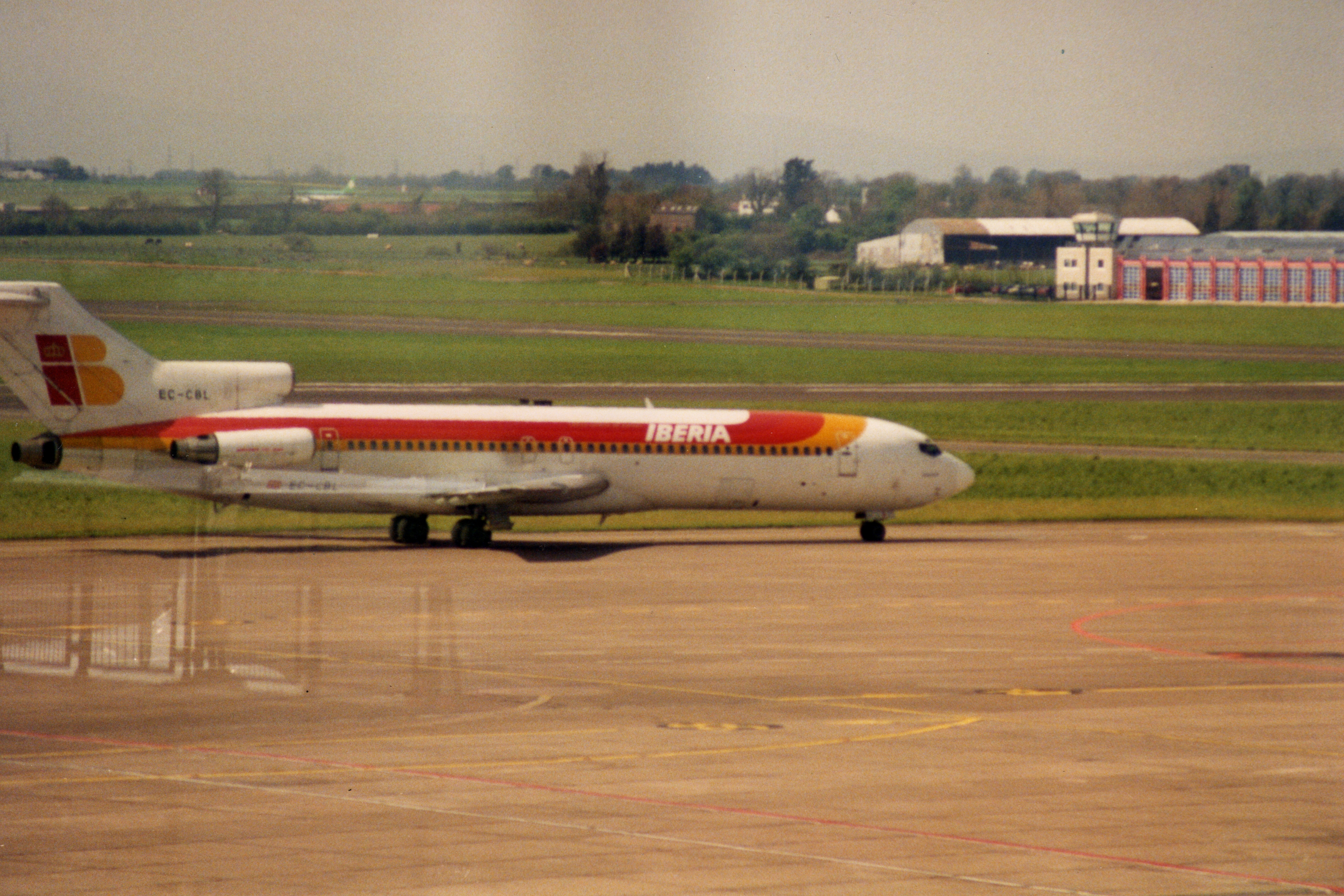 Iberia (EC-CBL) Boeing 727-200 aircraft, Dublin Airport, Dublin, Republic of Ireland, May 1994